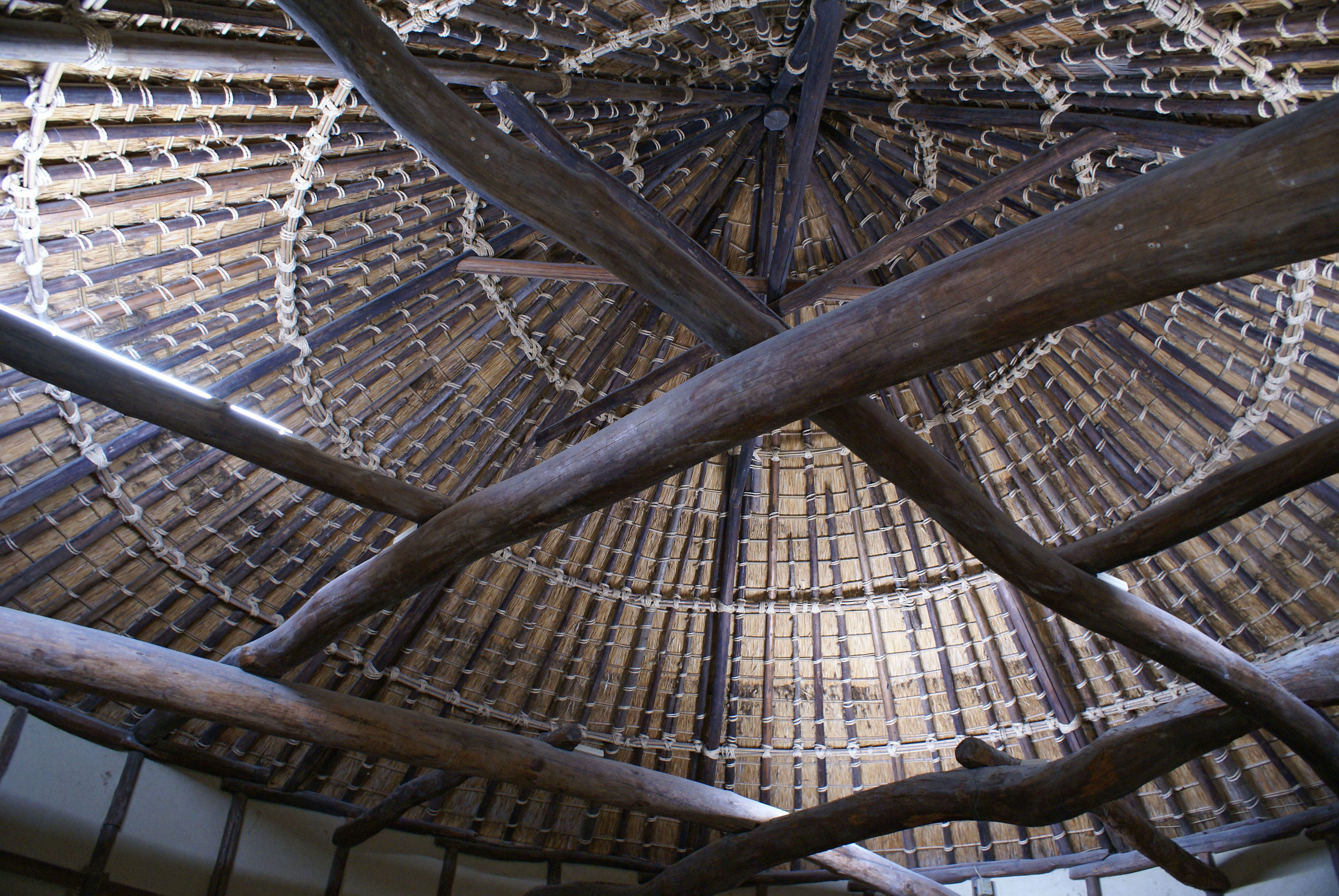 Shikokumura in Takamatsu Kagawa prefecture, Japan